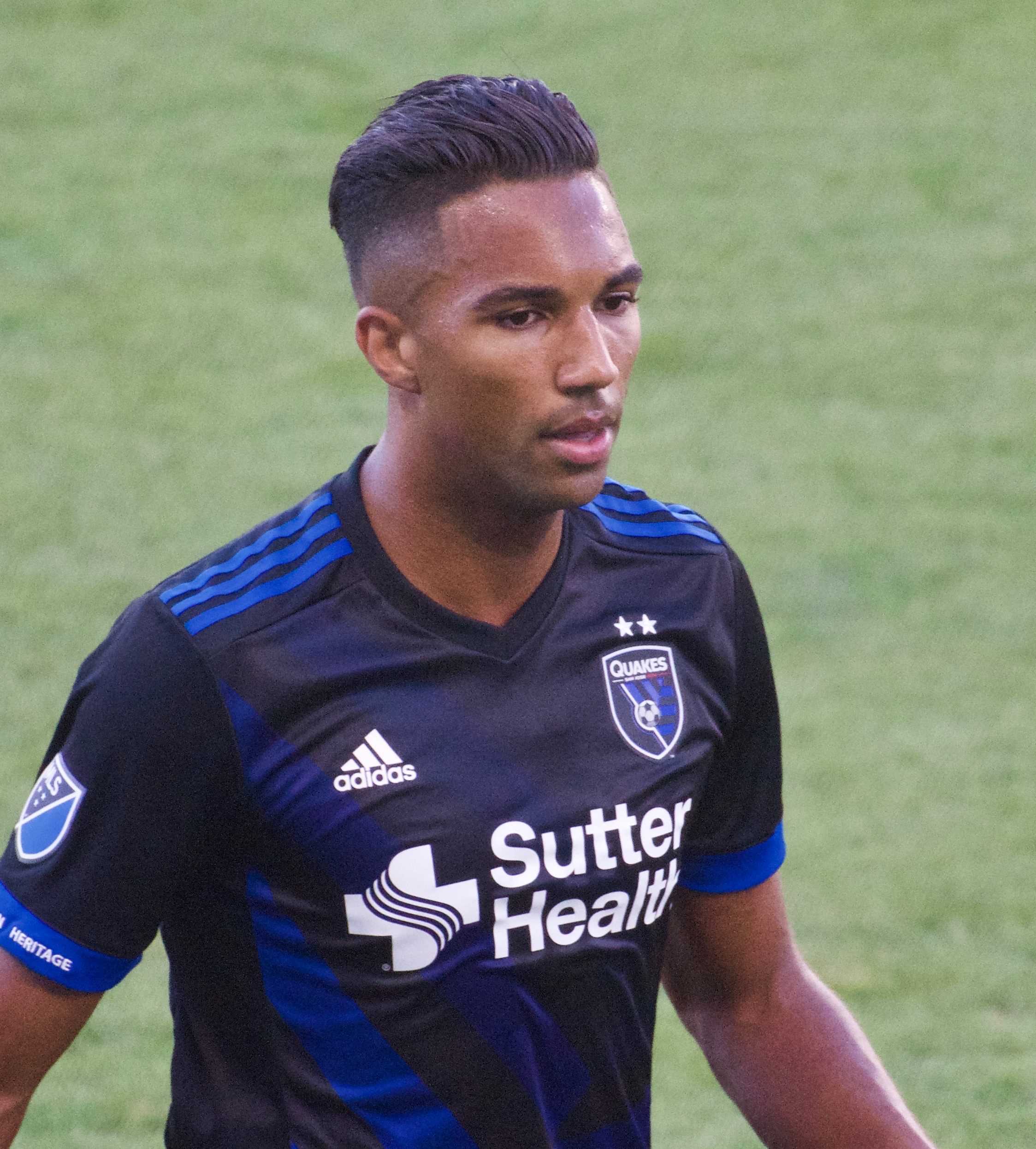 Danny Hoesen playing for San Jose Earthquakes, Avaya Stadium, 2017-07-29